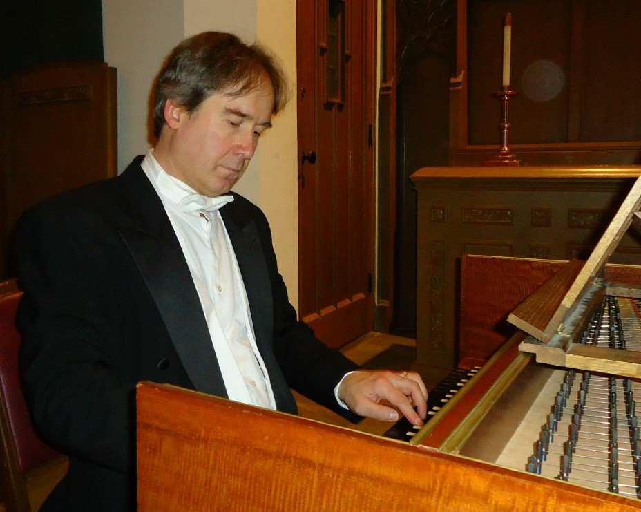 Dr. Sándor Szabó performing at a candlelit concert at Central Presbyterian Church in November 2012. The instrument he is playing is a "Hubbard, French Double Manual Harpsichord After Taskin", according to a promotional flyer. He played music from Bach, Frescobaldi, Haydn, Rameau and Scarlatti.